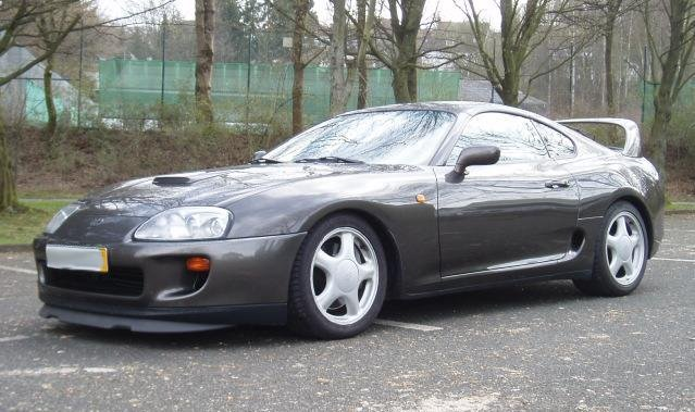 Supra MKIV (JZA80) Color code 1A1 (Anthracite)